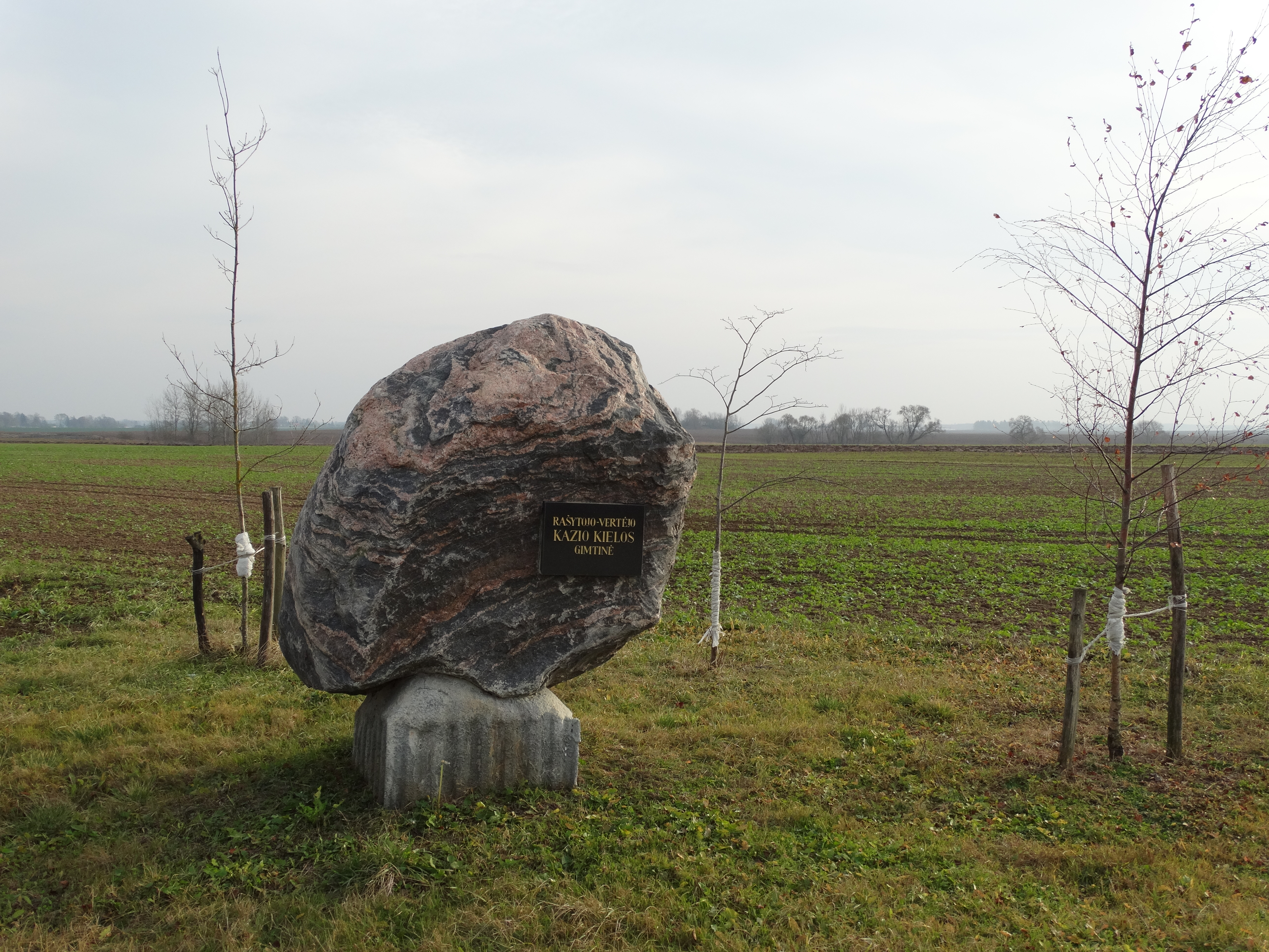 Stone in memory of Kazys Kiela, by Saločiai, Pasvalys district, Lithuania